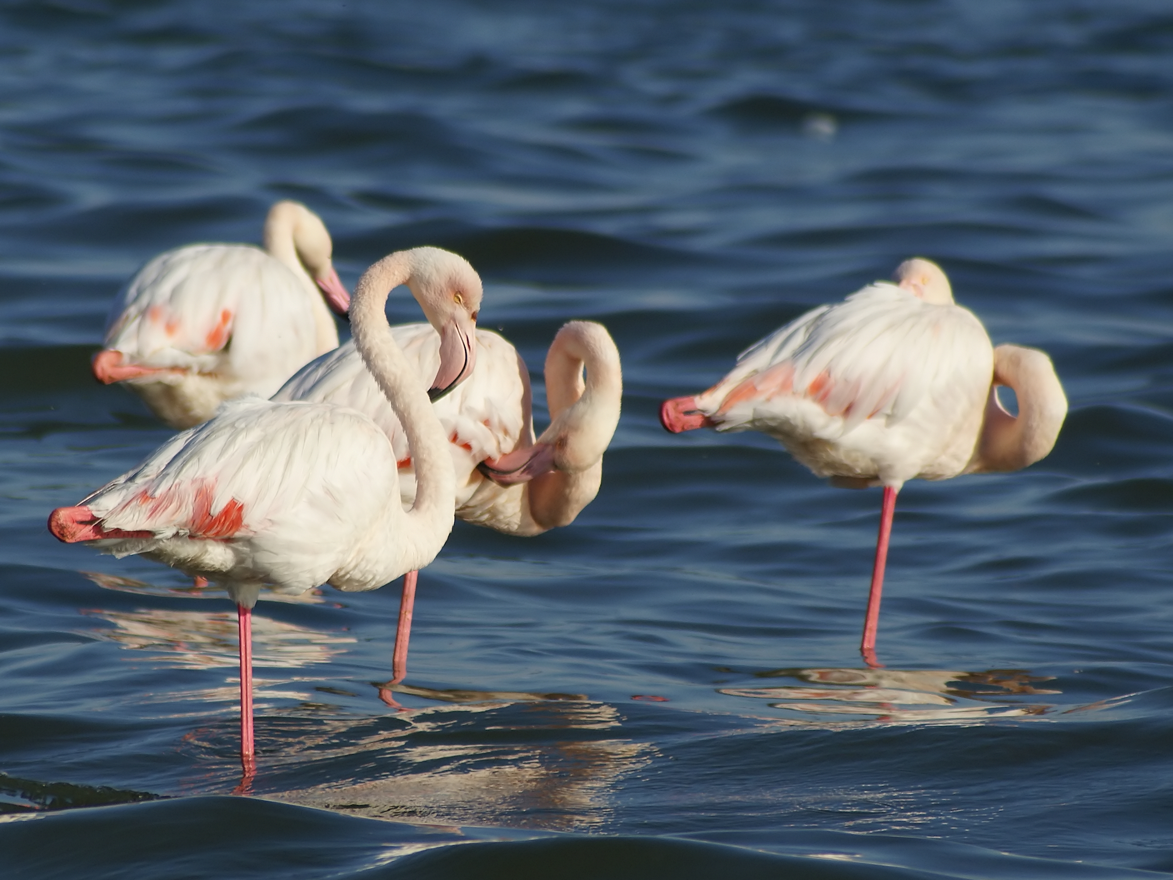 A group of Greater Flamingoes at Walvis Bay, Namibia